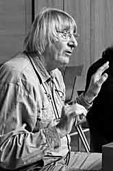 Walter Schels while an interview on June 1st, 2009 in Ostseebad Zingst